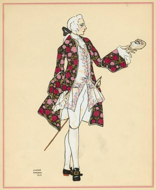 Costume design by George Barbier (1882-1932) for Maurice Rostand's play La Vie amoureuse de Casanova.